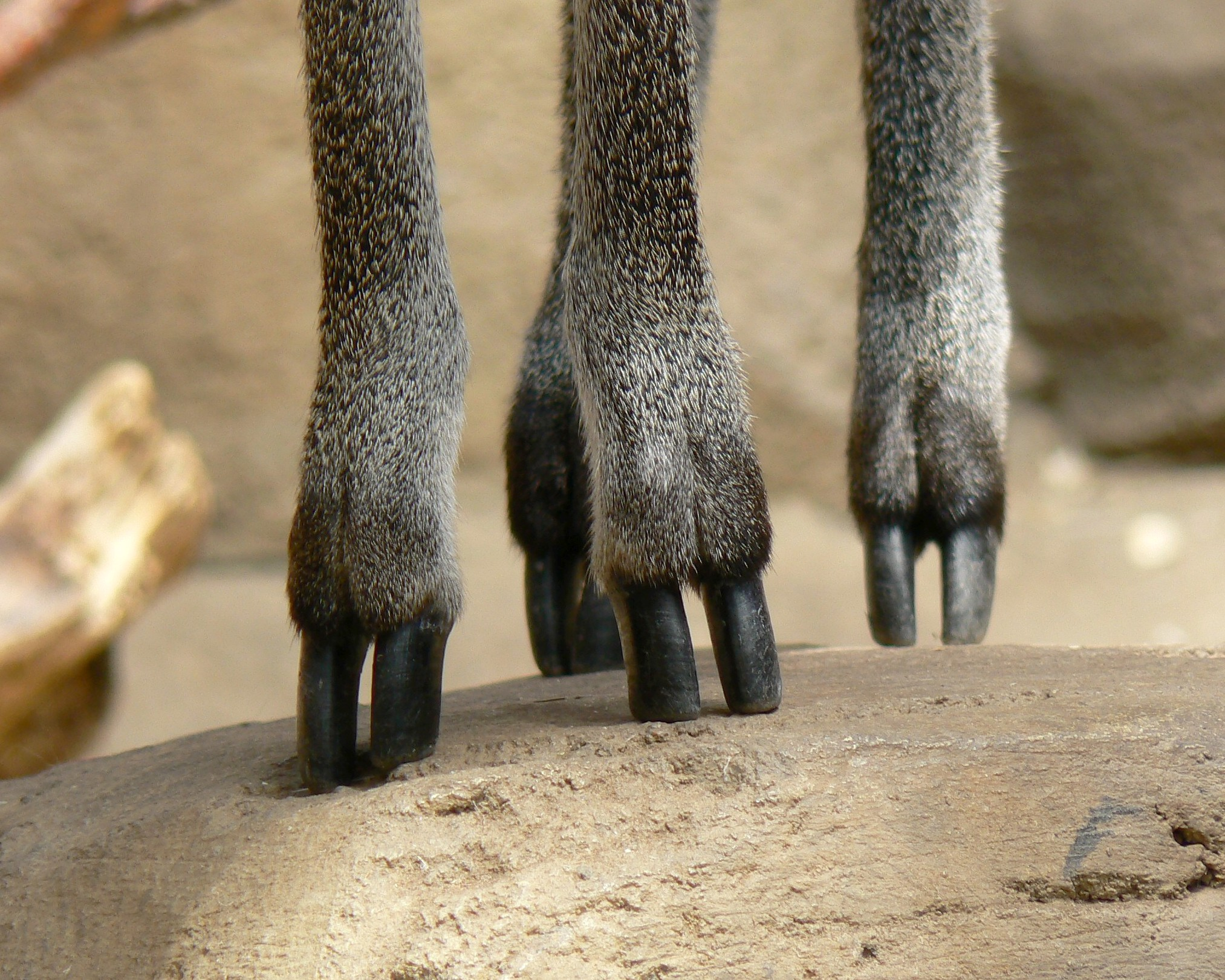 Klipspringer (Oreotragus oreotragus), detail of feet